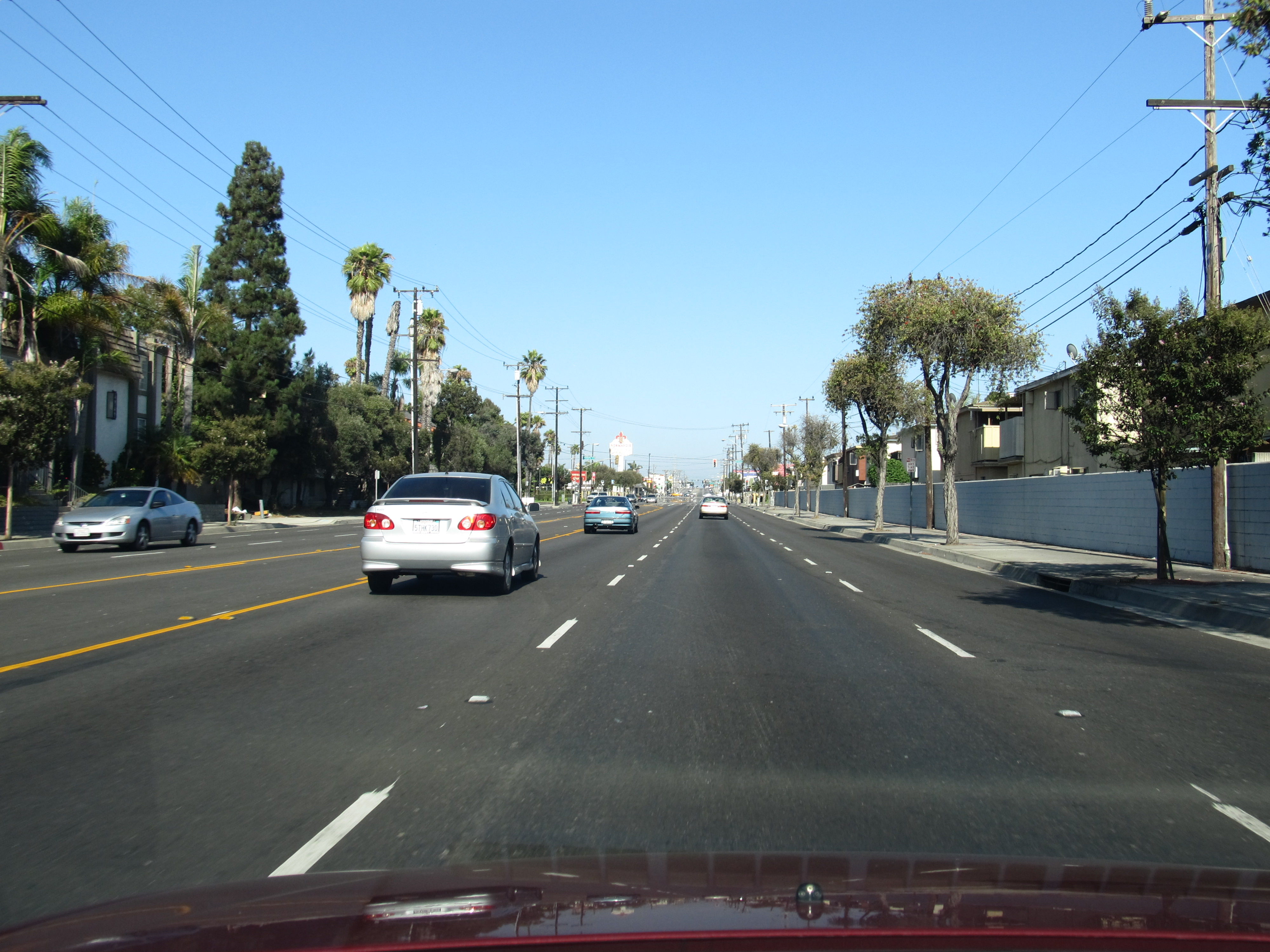 Gardena is a city located in the South Bay (southwestern) region of Los Angeles County, California, United States. The population was 58,829 at the 2010 census, up from 57,746 at the 2000 census.